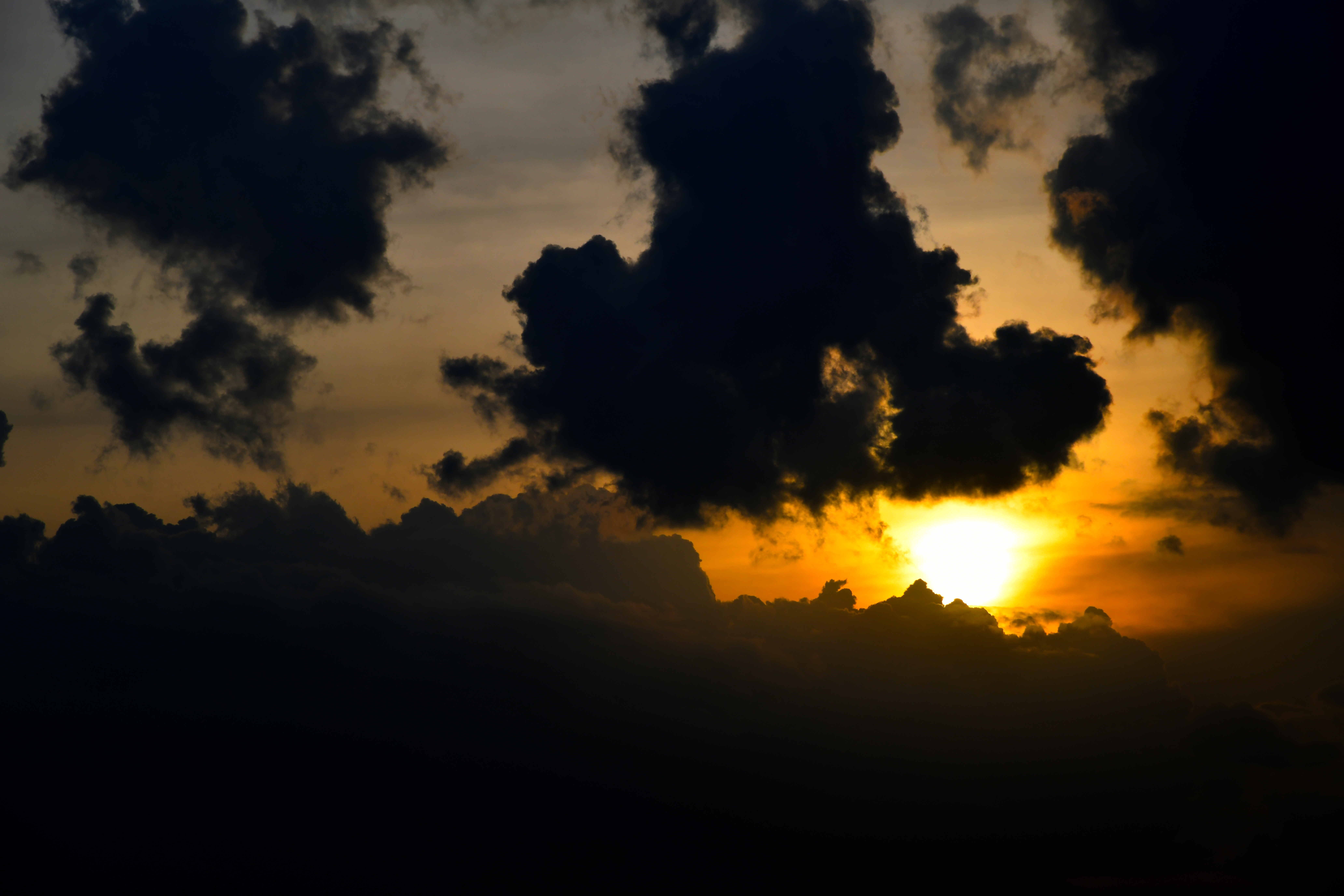 อุทยานแห่งชาติภูลังกา